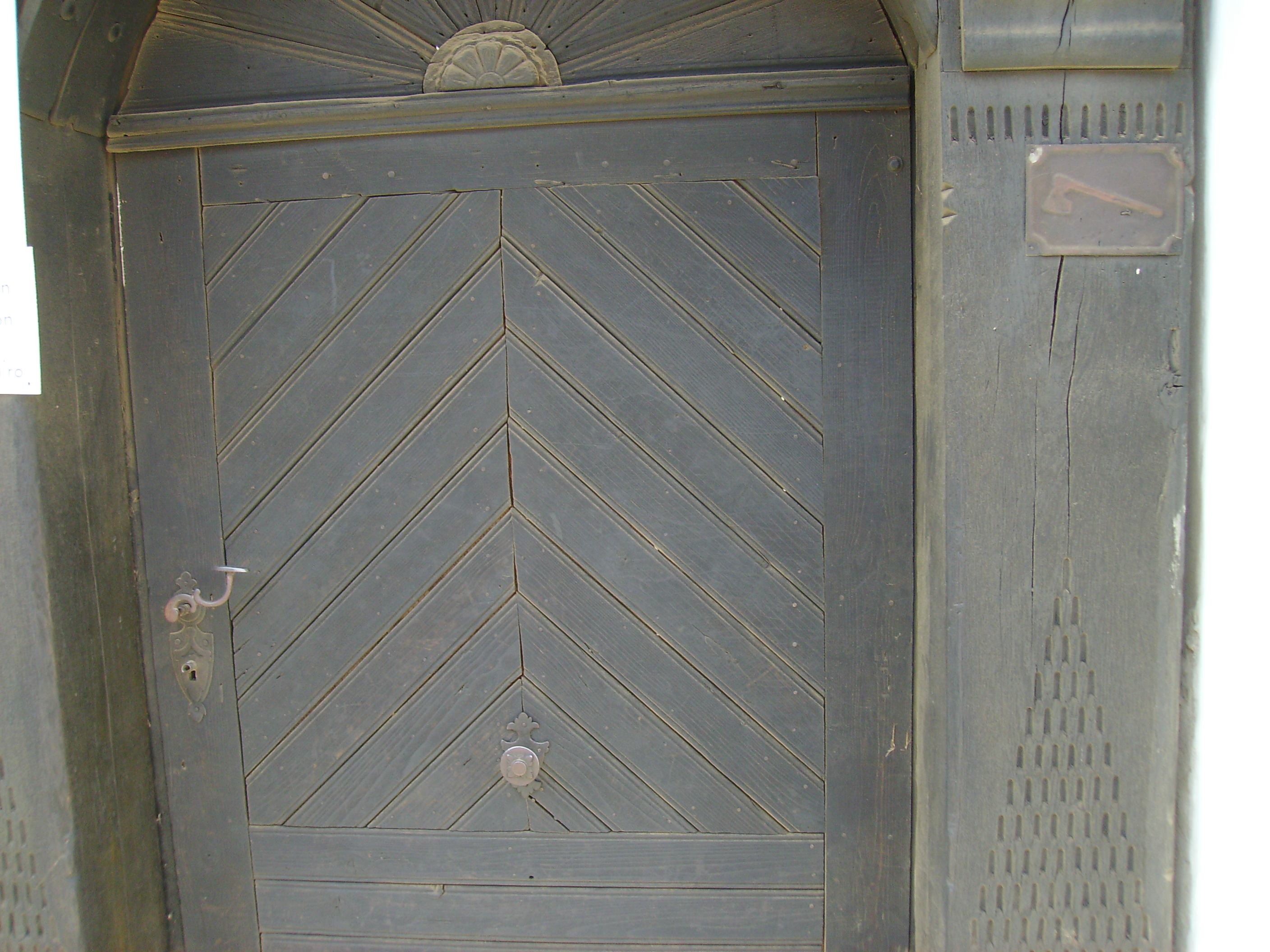 Ancient gate in Rimetea, Transylvania, Romania. In case of fire danger, this household would have contributed to the common effort with an axe.